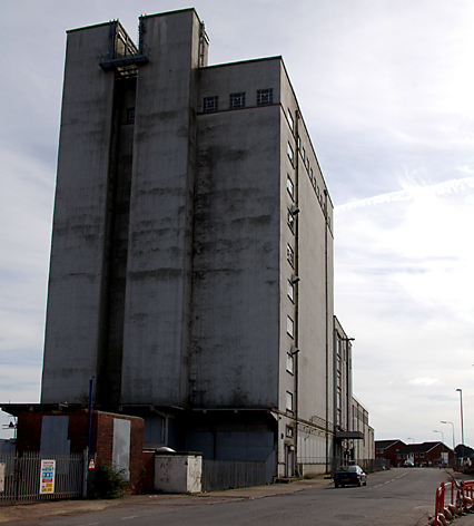 ABM Pauls Malt Kiln The first concrete maltings built in Europe, and at the time the biggest.